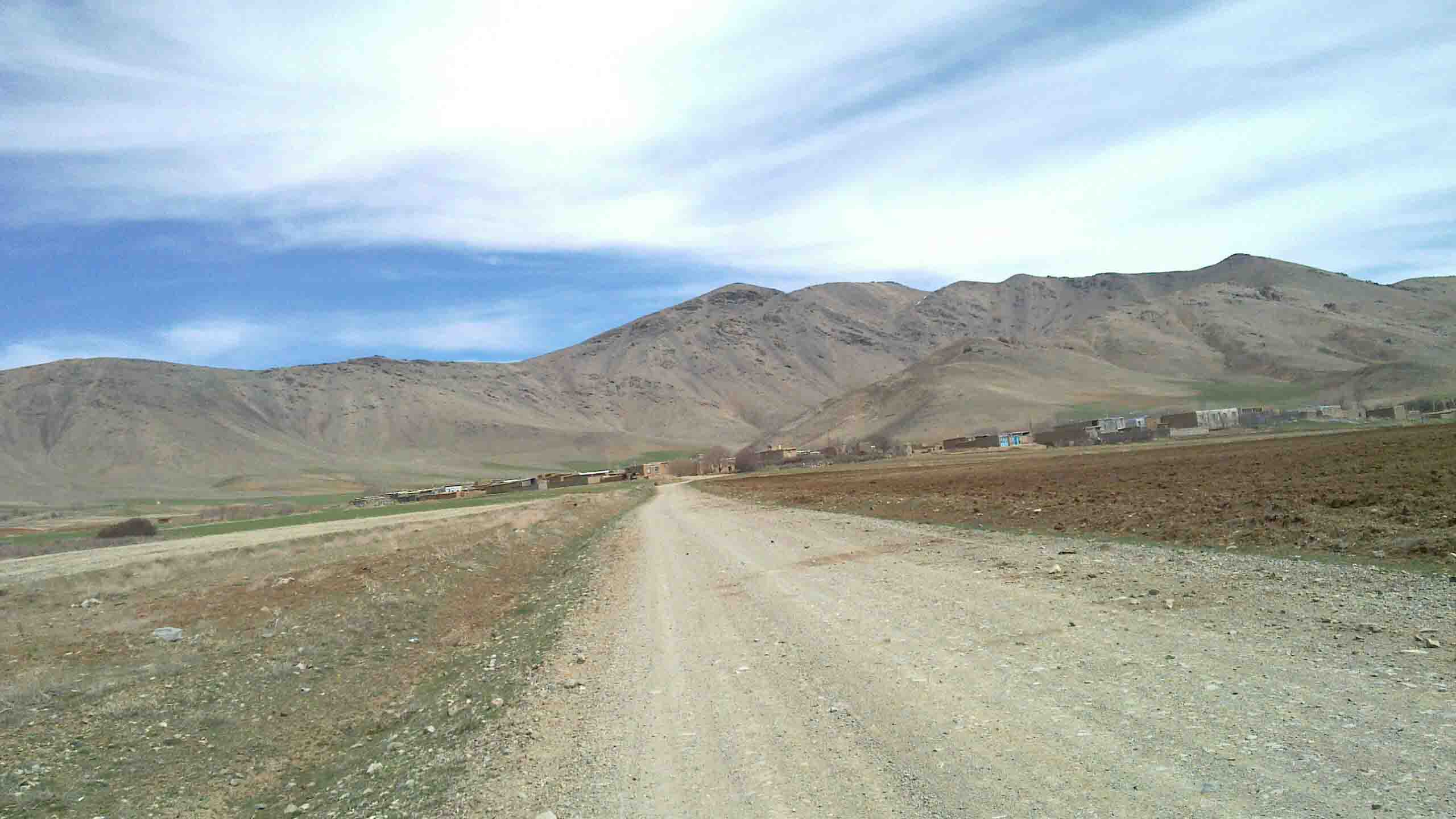 گردکانه